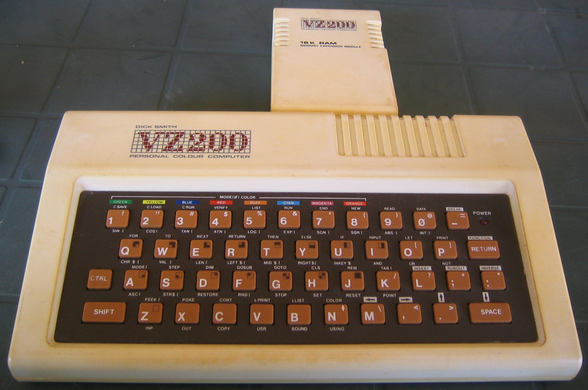 A VZ-200 computer, as sold by Dick Smith in Australia. This is a view from the front with the 16k RAM expansion pack plugged in.